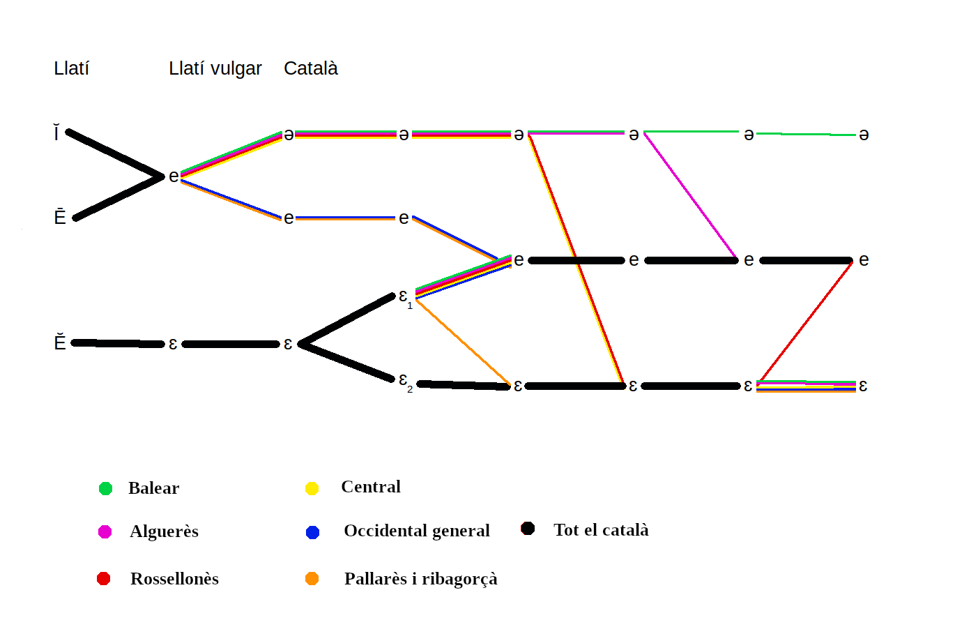 'ɛ2' represents 'ɛ' when: followed by 'l', 'rr', by 'r'+non-labial consonant, by 'nr' and secondary 'w'. 'ɛ1' represents the rest of 'ɛ' (later becomes 'e').